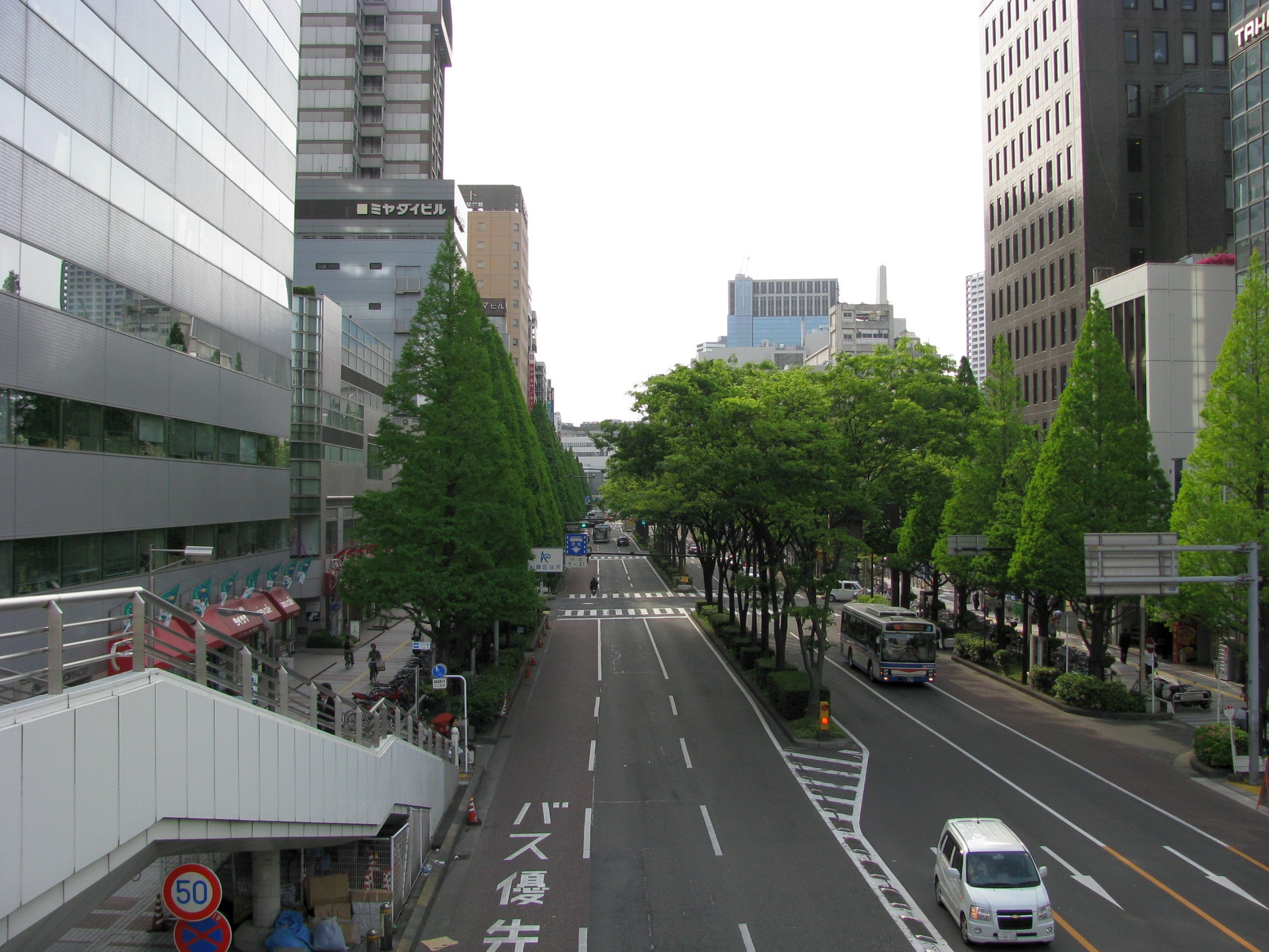 The Kanagawa Prefectural Route 9. This place is in Kawasaki-ku, Kawasaki, Kanagawa, Japan.